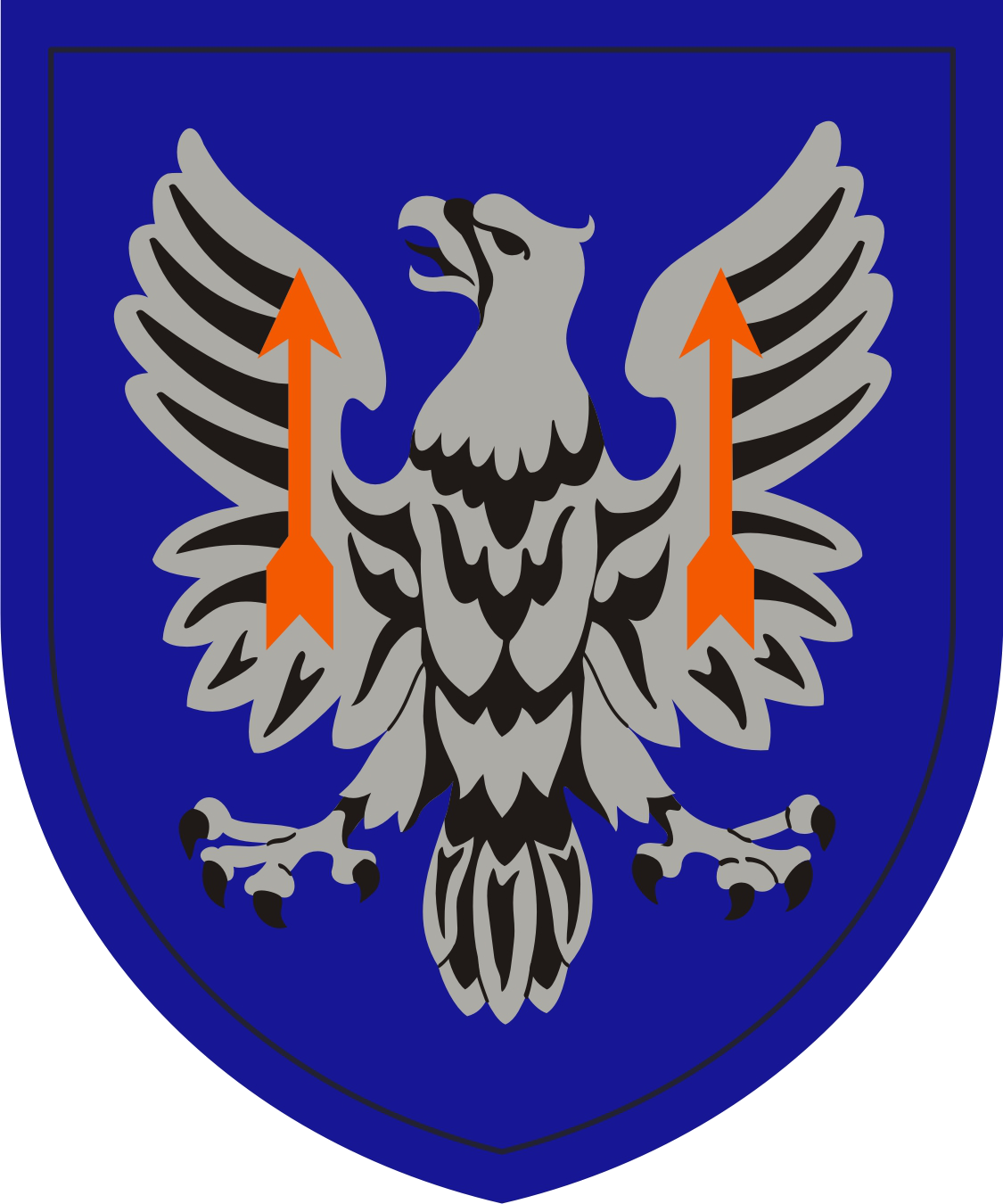 U.S. Army's w:11th Theater Aviation Command shoulder sleeve insignia